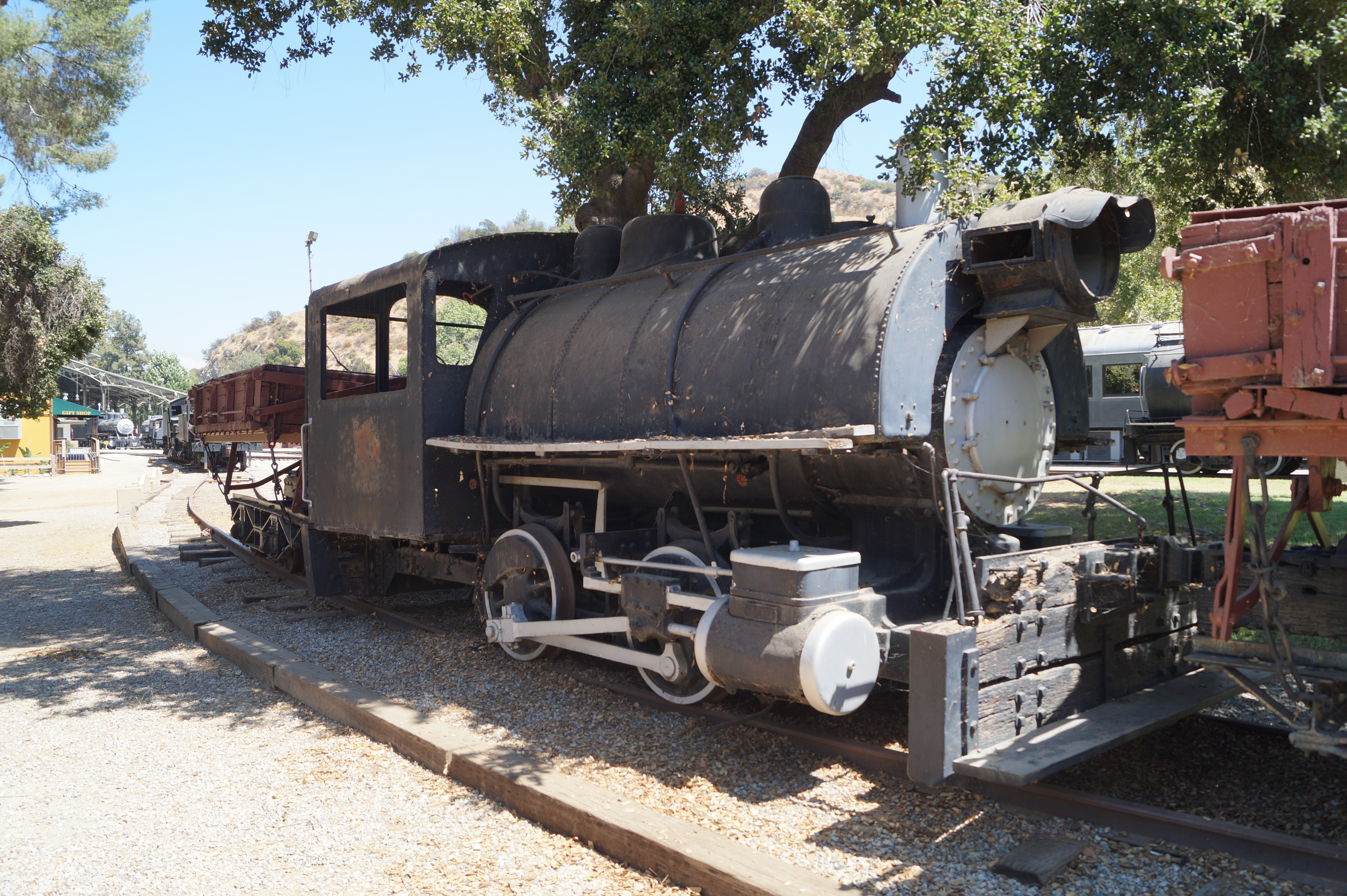 Travel Town Museum is a transport museum dedicated in the northwest corner of Los Angeles, California's Griffith Park. The history of railroad transportation in the western United States from 1880 to the 1930s is the primary focus of the museum's collection, with an emphasis on railroading in Southern California and the Los Angeles area.